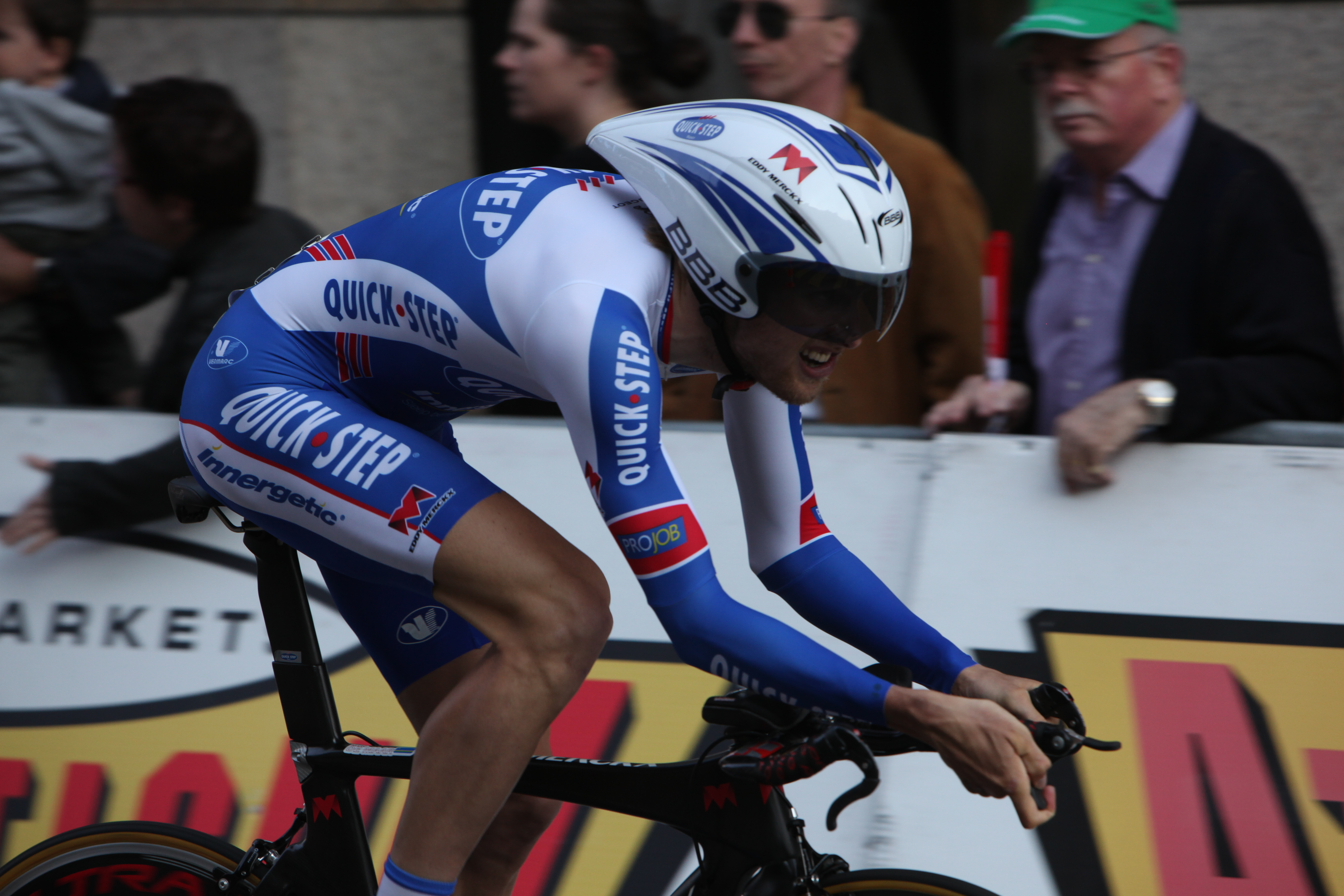 Marc De Maar at the prologue of the Tour de Romandie 2011